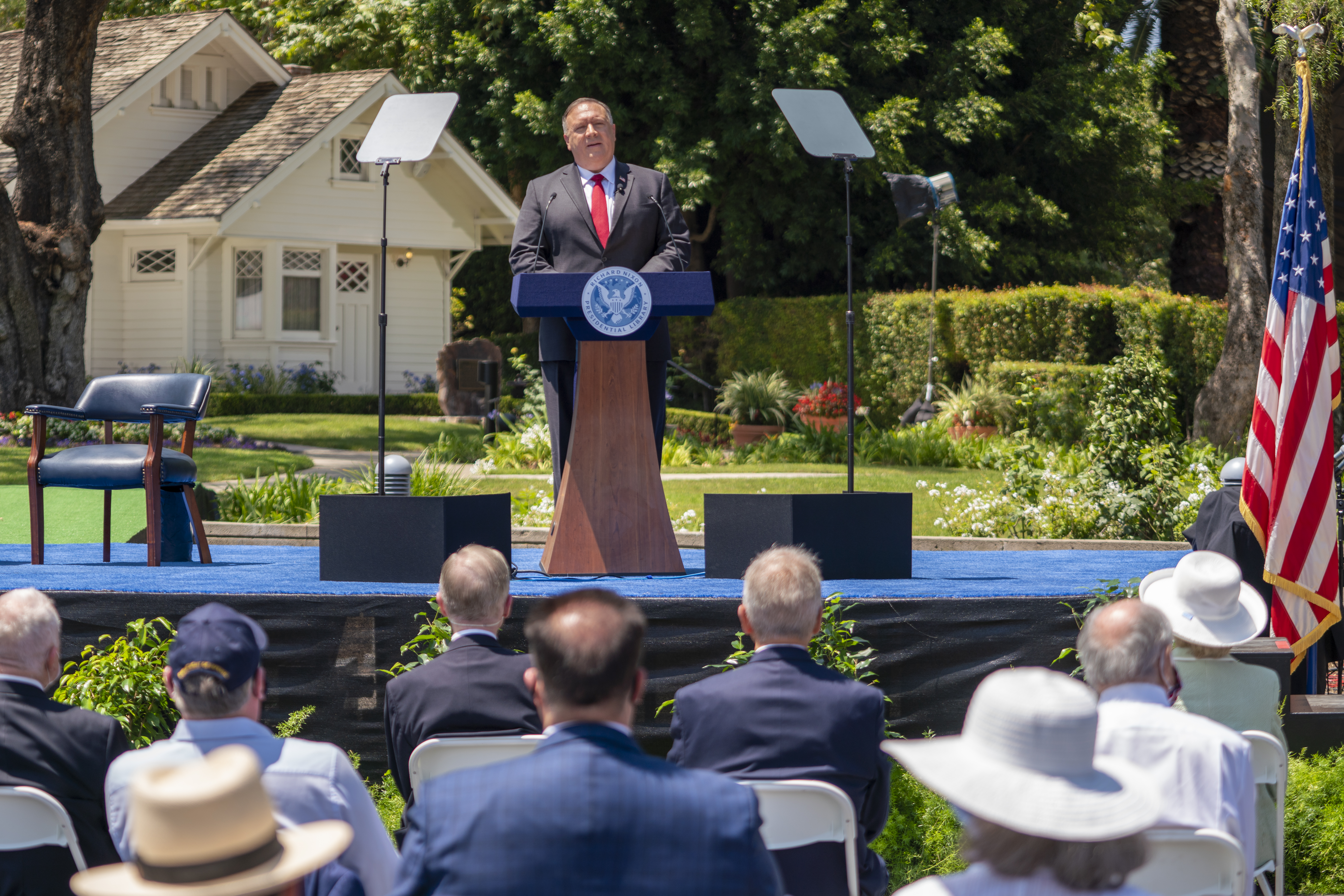 Secretary of State Michael R. Pompeo delivers a speech on “Communist China and the Free World’s Future” at the Richard Nixon Presidential Library, in Yorba Linda, California, on July 23, 2020. [State Department photo by Ron Przysucha/ Public Domain]